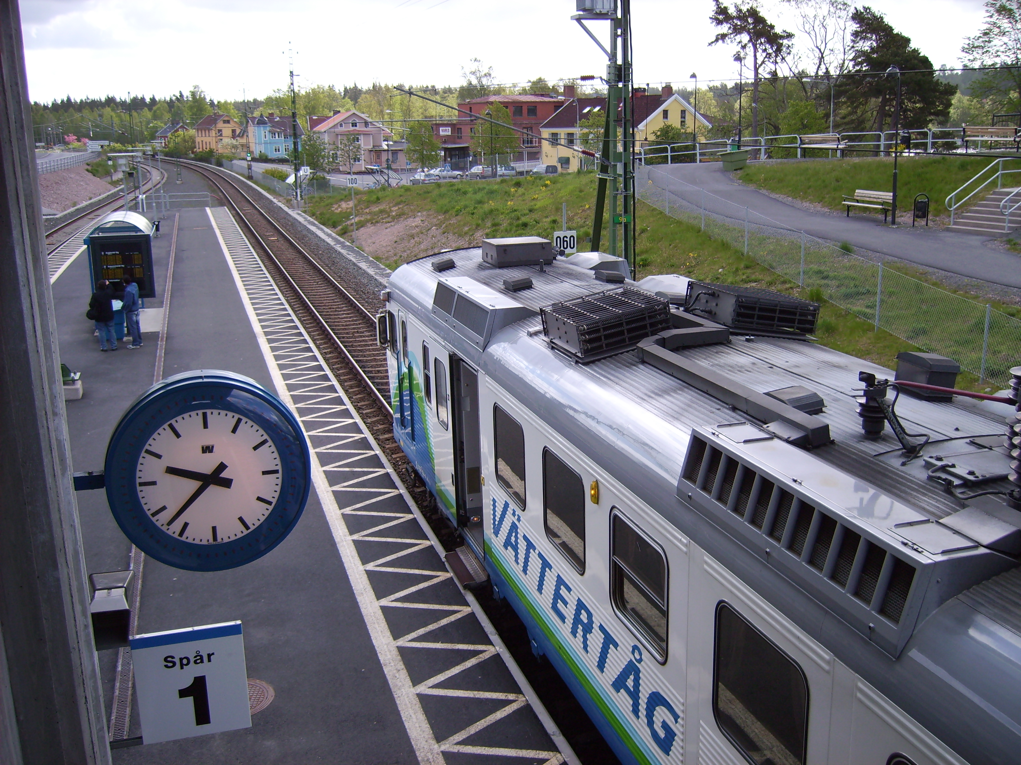 The railway station in the municipality Mullsjö in Sweden.